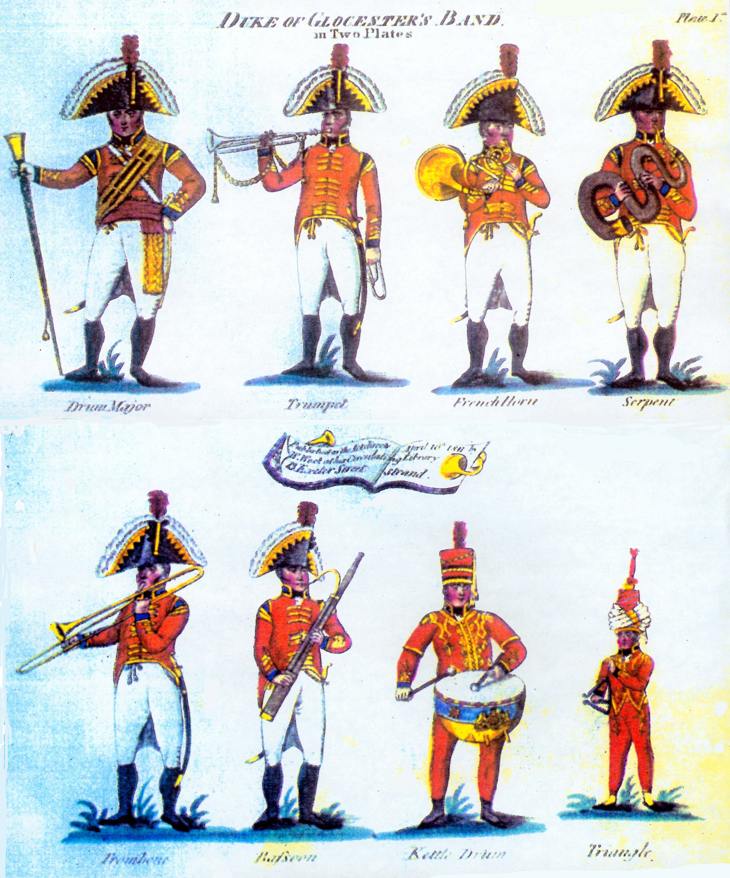 An illustration of the Duke of Gloucester’s Band, an ensemble associated with the 3rd Regiment of Foot Guards (today the Scots Guards), in 1811